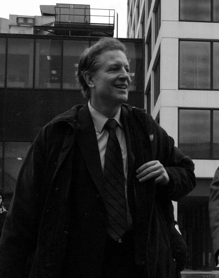 Shimer College President Thomas K. Lindsay walking through protest of Shimer College Board meeting, February 20th 2010.